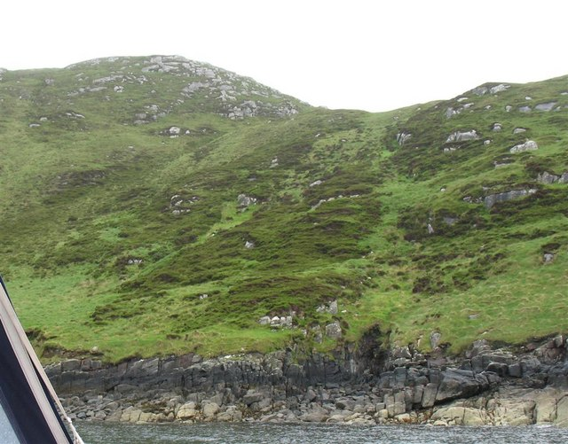 Muldoanich, Barra Isles. This island just off Barra is covered in a luxuriant layer of deep moss.